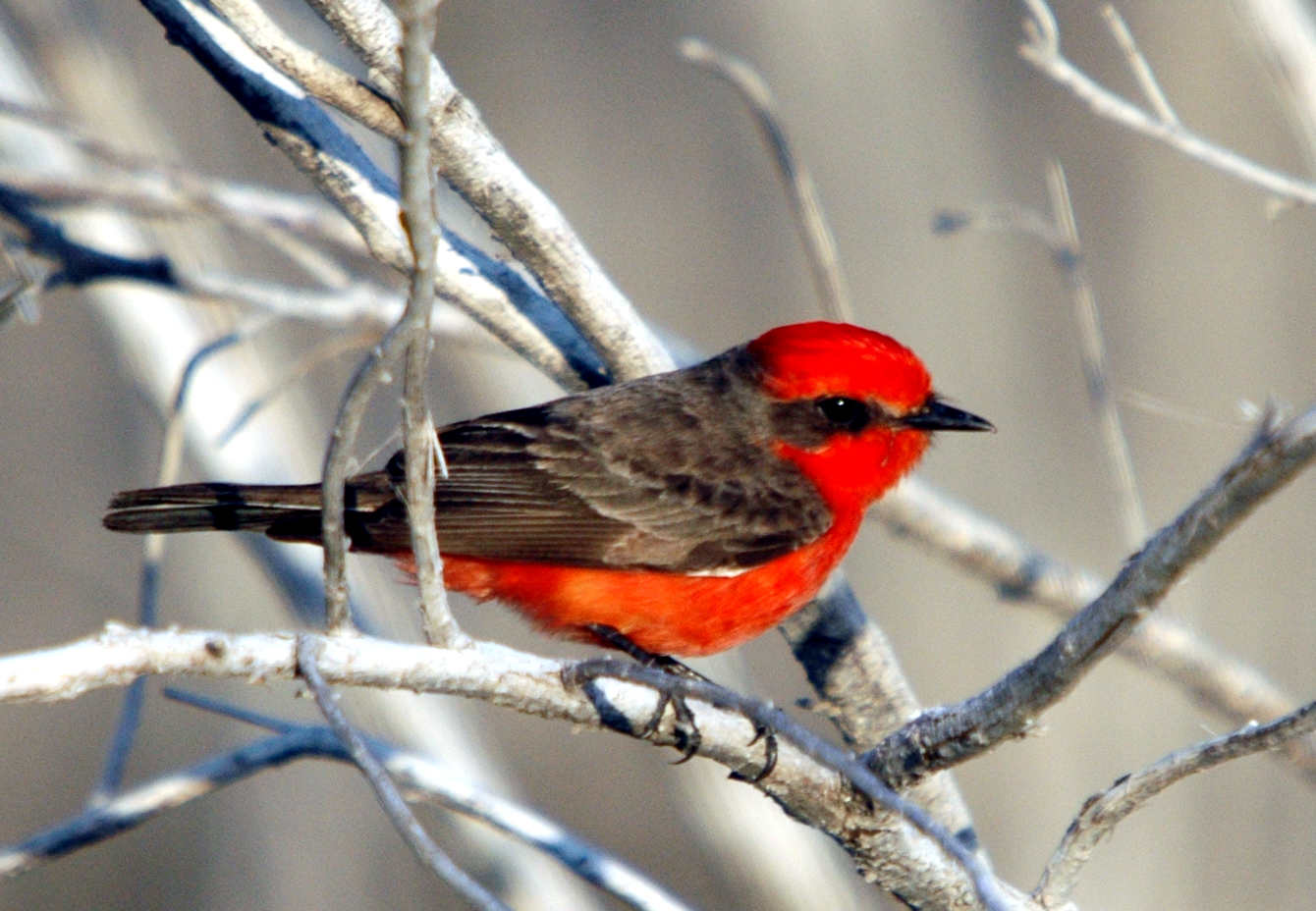 Vermilion Flycatcher Pyrocephalus obscurus, adult male. Amistad National Recreation Area (ANRA), Del Rio, Val Verde County, Texas, USA.